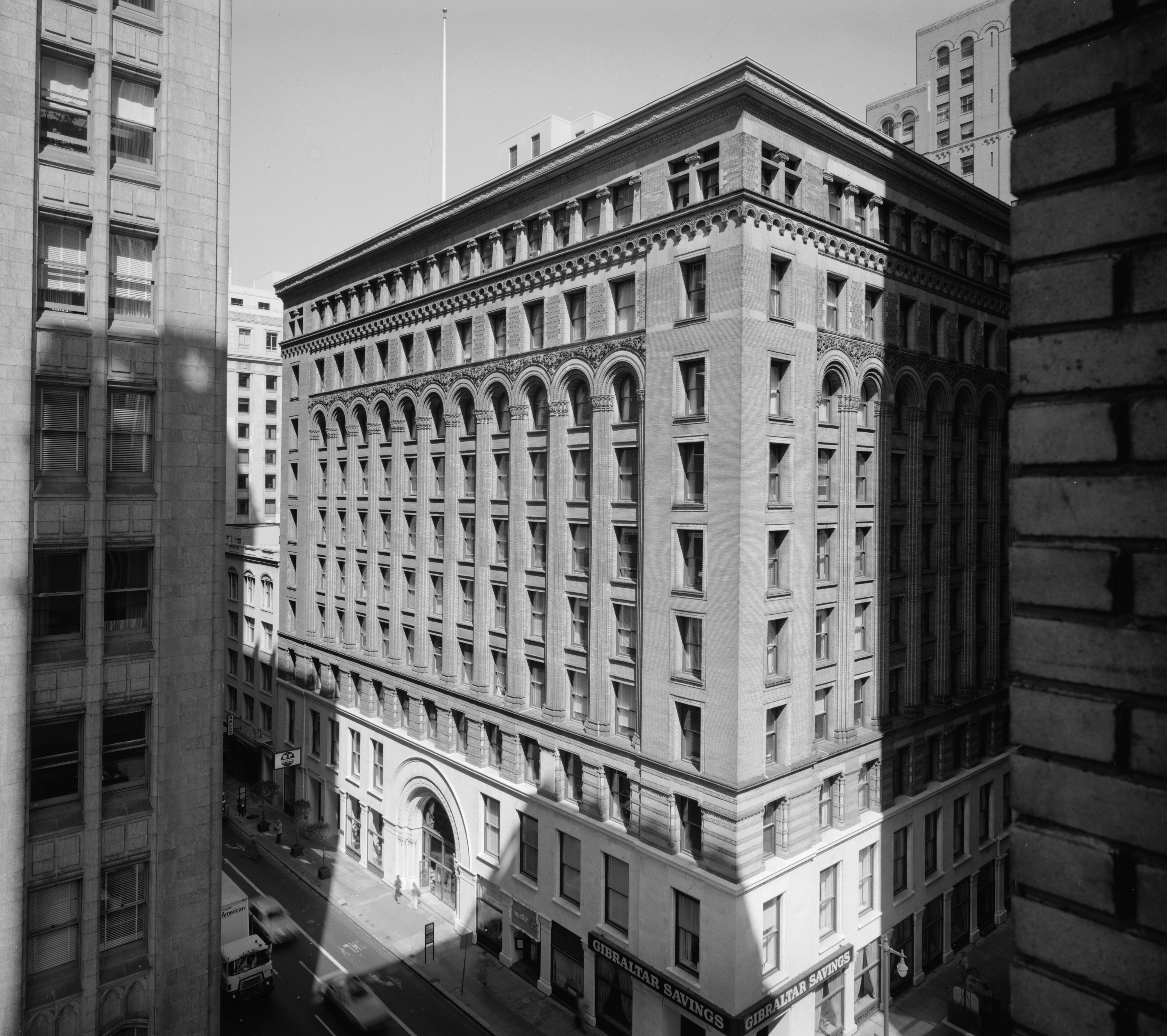 Mills Building — GENERAL VIEW, MONTGOMERY STREET FRONT. At 220 Montgomery Street, San Francisco, San Francisco County, California. National Historic Landmark and on the National Register of Historic Places. Historic American Buildings Survey—HABS image.